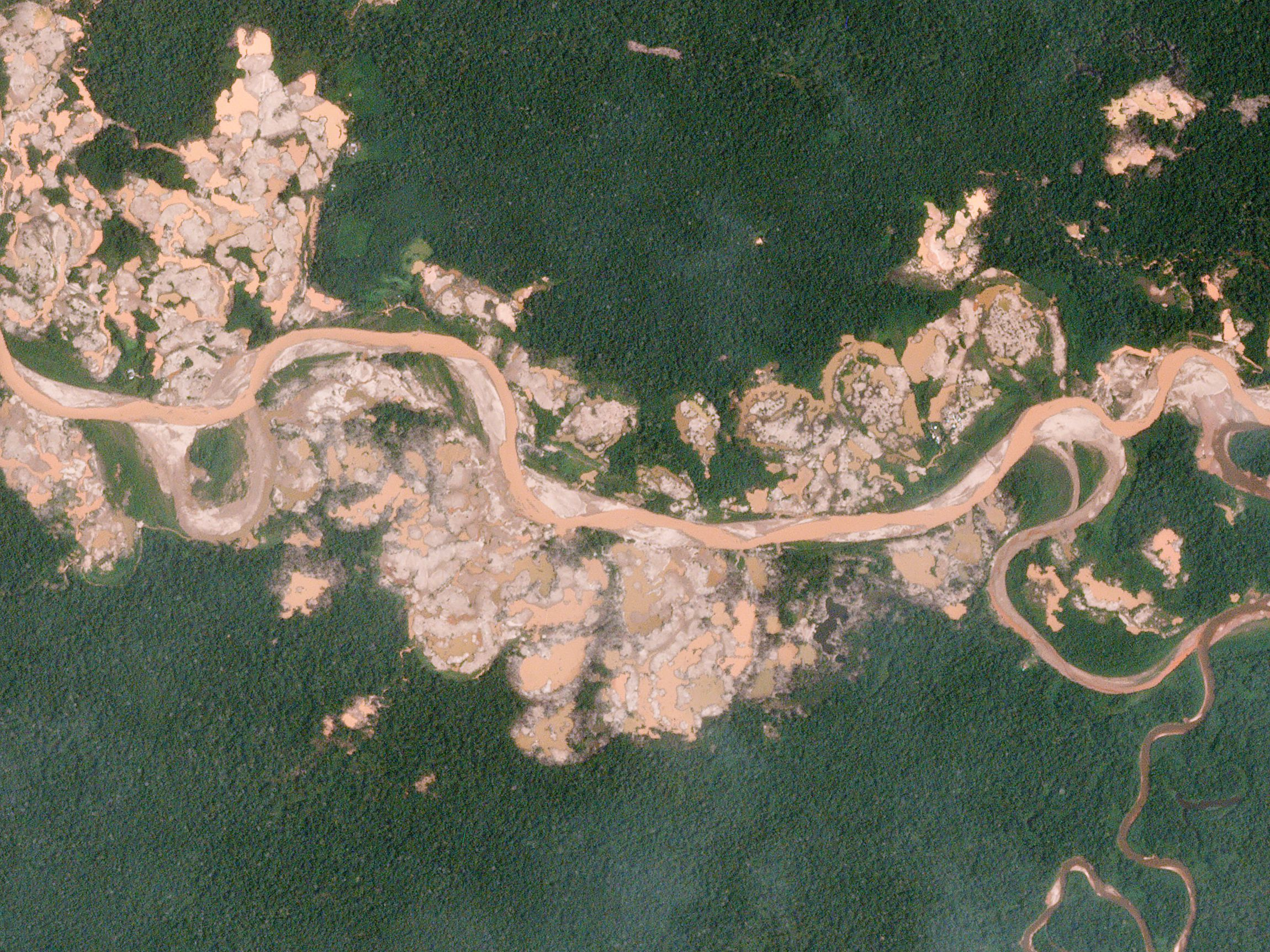 Illegal Mining In Peru Peru January 20, 2017 The sprawling "La Pampa" gold mine has grown quickly over the years. In 2016, however, the mine spilled south of the Malinowski River, illegally entering the Tambopata National Reserve—a protected forest. The Amazon Conservation Association used Planet data to publish a series of alerts which tracked hundreds of hectares of illegal expansion and mapped alterations to the course of the Malinowski River. The Peruvian government has intervened and is now actively targeting illegally cited mining equipment inside the reserve.